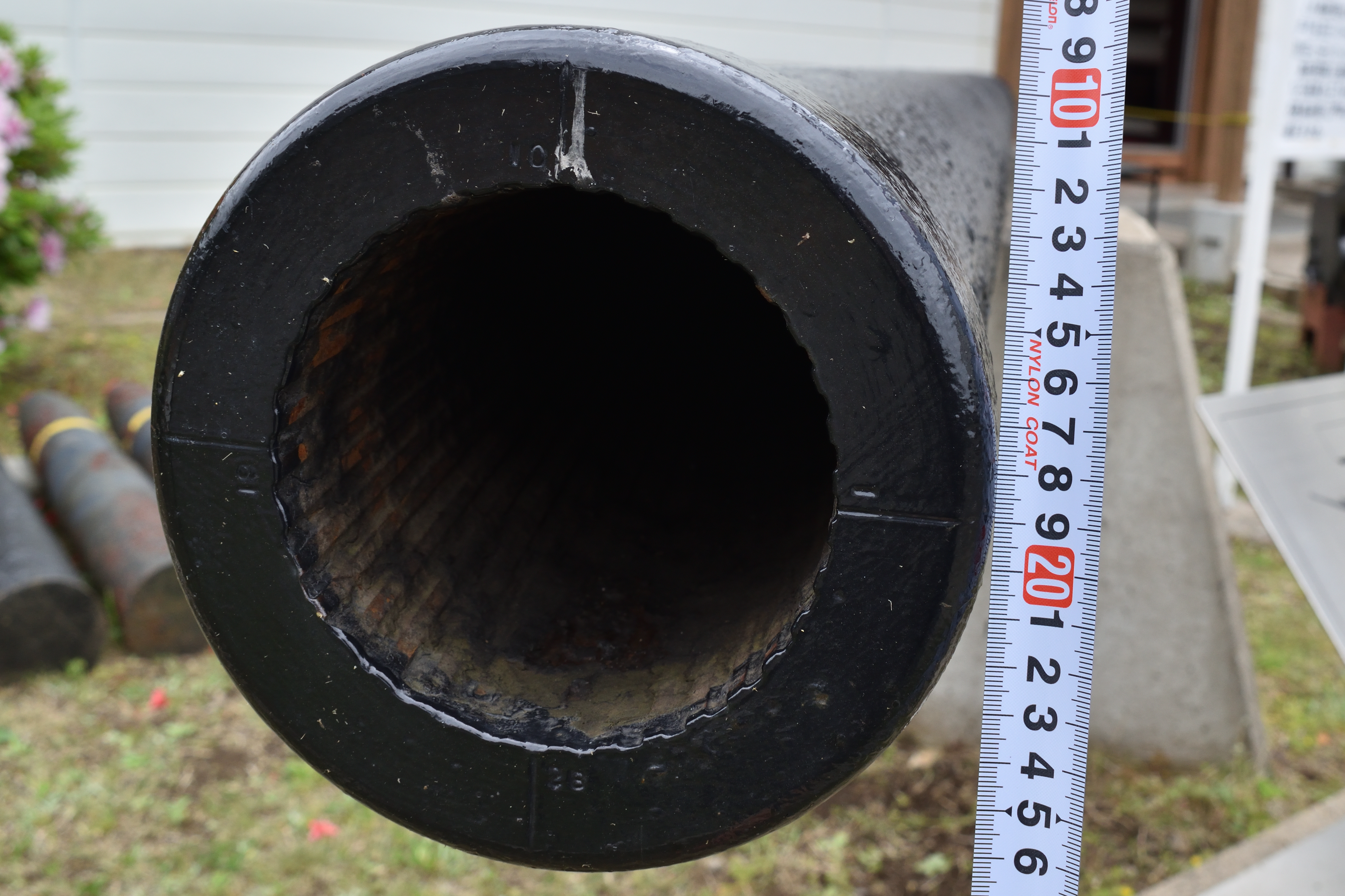 Muzzle of a Type 3 12 cm Anti-Aircraft Gun of the Imperial Japanese Army.